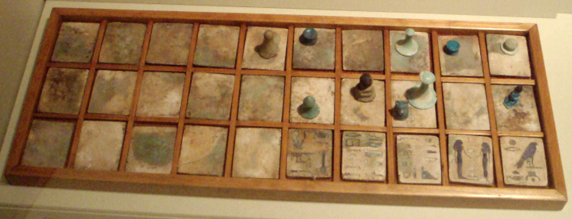 A senet game board and pieces, from the Ancient Egyptian wing of the Royal Ontario Museum.